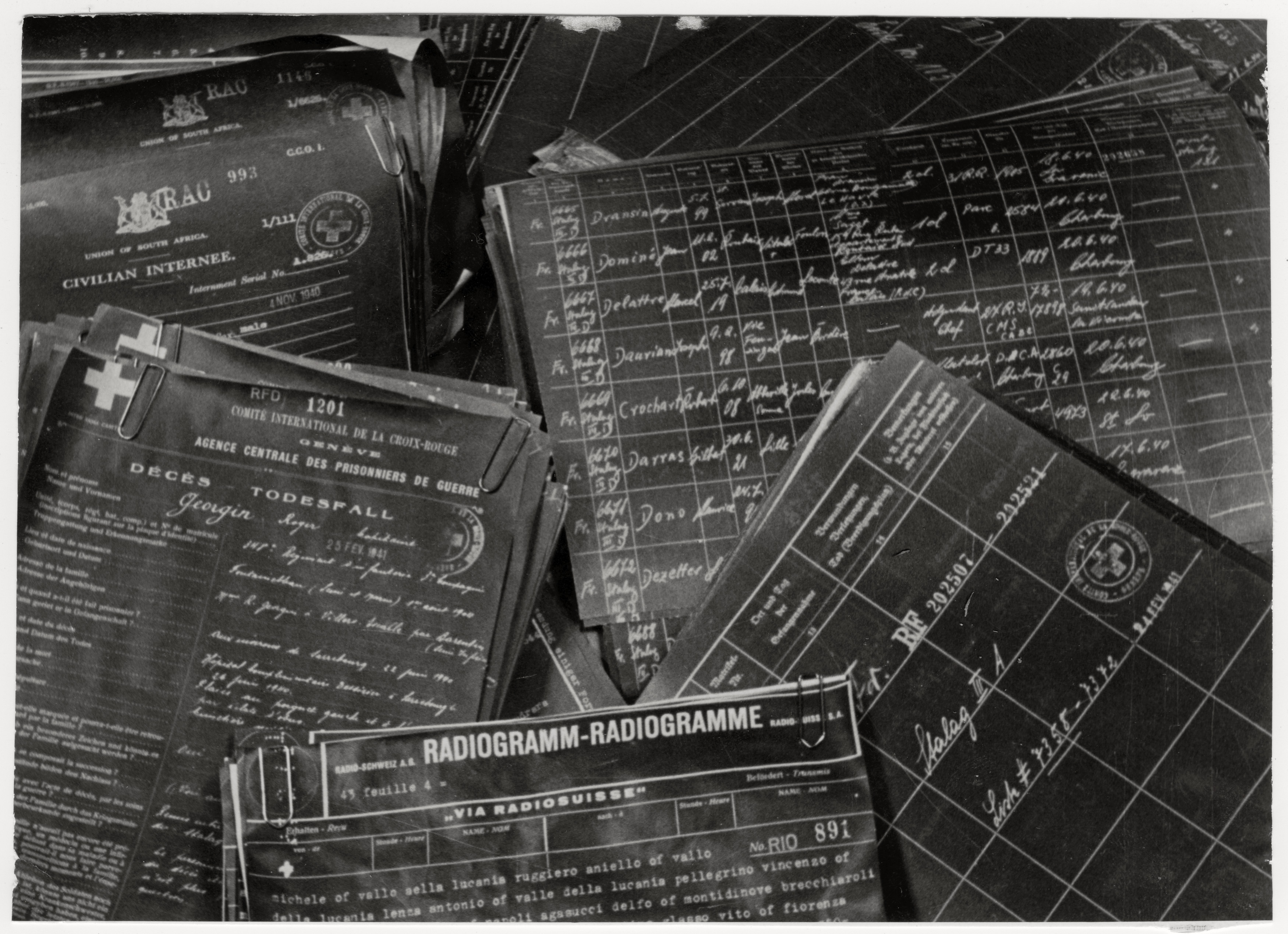 1939-1945 Geneva. International Prisoners-of-War Agency. Service for cases of death.